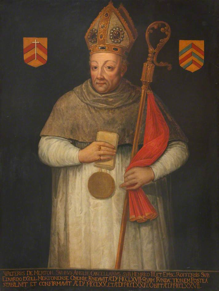 Imaginary portrait c.1670, by Wilhelm Sonmans (d.1708) of Walter de Merton (c. 1205 – 1277) Lord Chancellor of England, Archdeacon of Bath, founder of Merton College, Oxford, and Bishop of Rochester. Holding a folded parchment document from which is appended the Great Seal of England. Arms of de Merton at sinister (right). Bodleian Libraries, Oxford [1]